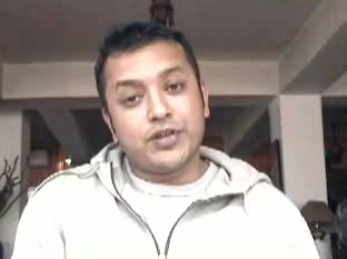 Gagan Thapa. Leader of the Nepali students